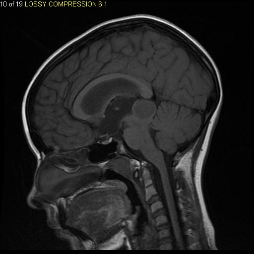 Sagittal T1-weighted MRI pre contrast enhancement showing a well circumscribed hypointense mass in the tectum of the brainstem with compression of the aqeduct